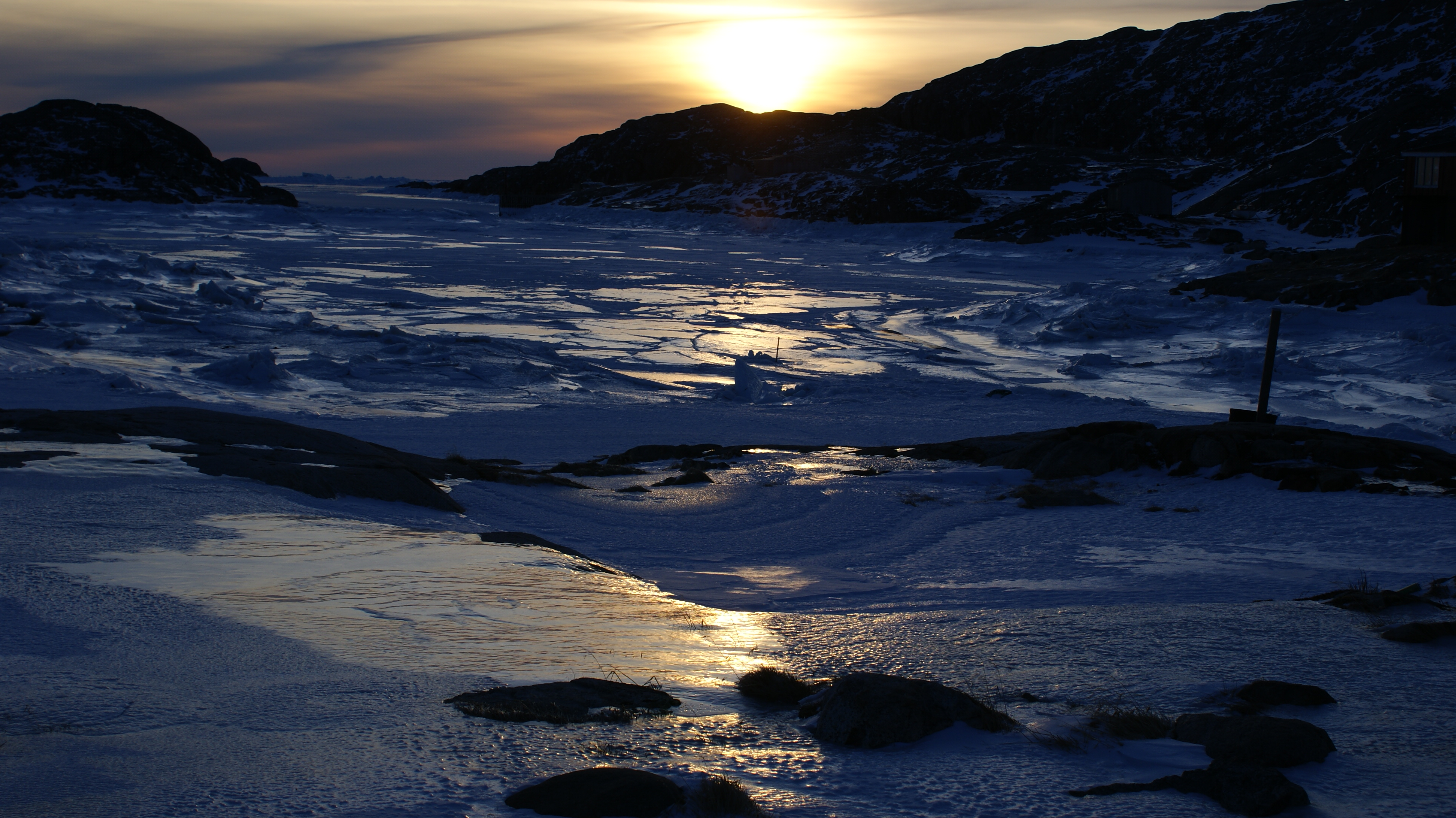 Bivouacking in the open air above the Tiivtingaleq harbour, Kulusuk, Greenland. Icebound at sunset.